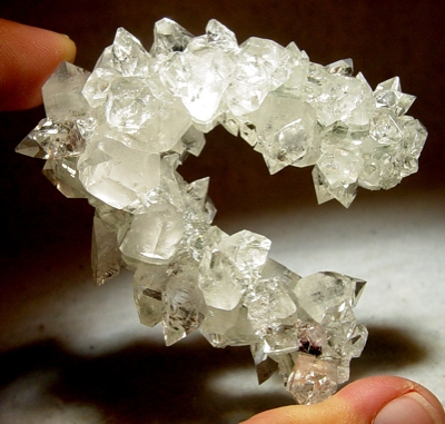 Apophyllite-(KF) Locality: Jalgaon District, Maharashtra, India (Locality at ) An incredibly cool specimen! Somehow, stalactite formed an arch or horseshoe of gem crystals! You can see the little green core at the center of each stalk , too. These crystals are thus not only sharp and well-displayed, but hang on a phantom. A unique and very desirable specimen! 7 x 6.5 x 2.8 cm